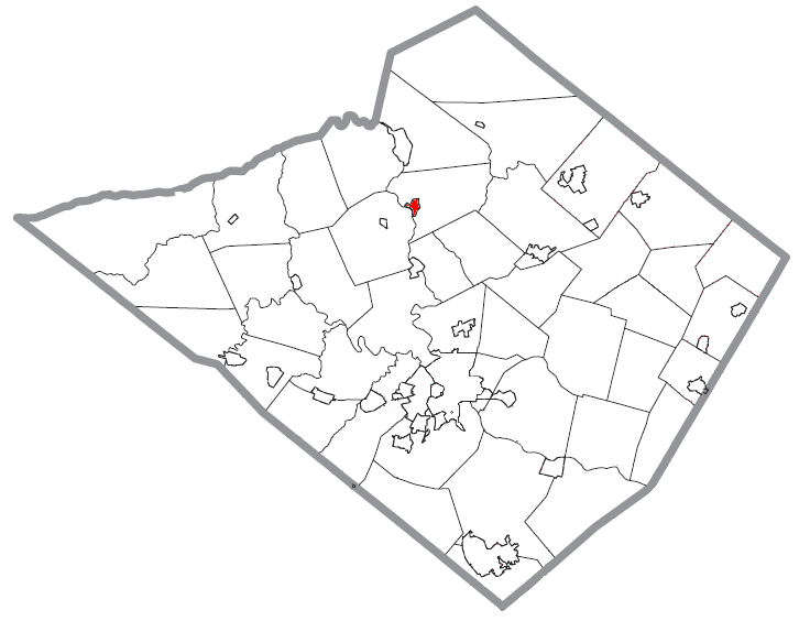 Location of Showmakersville in Berks County